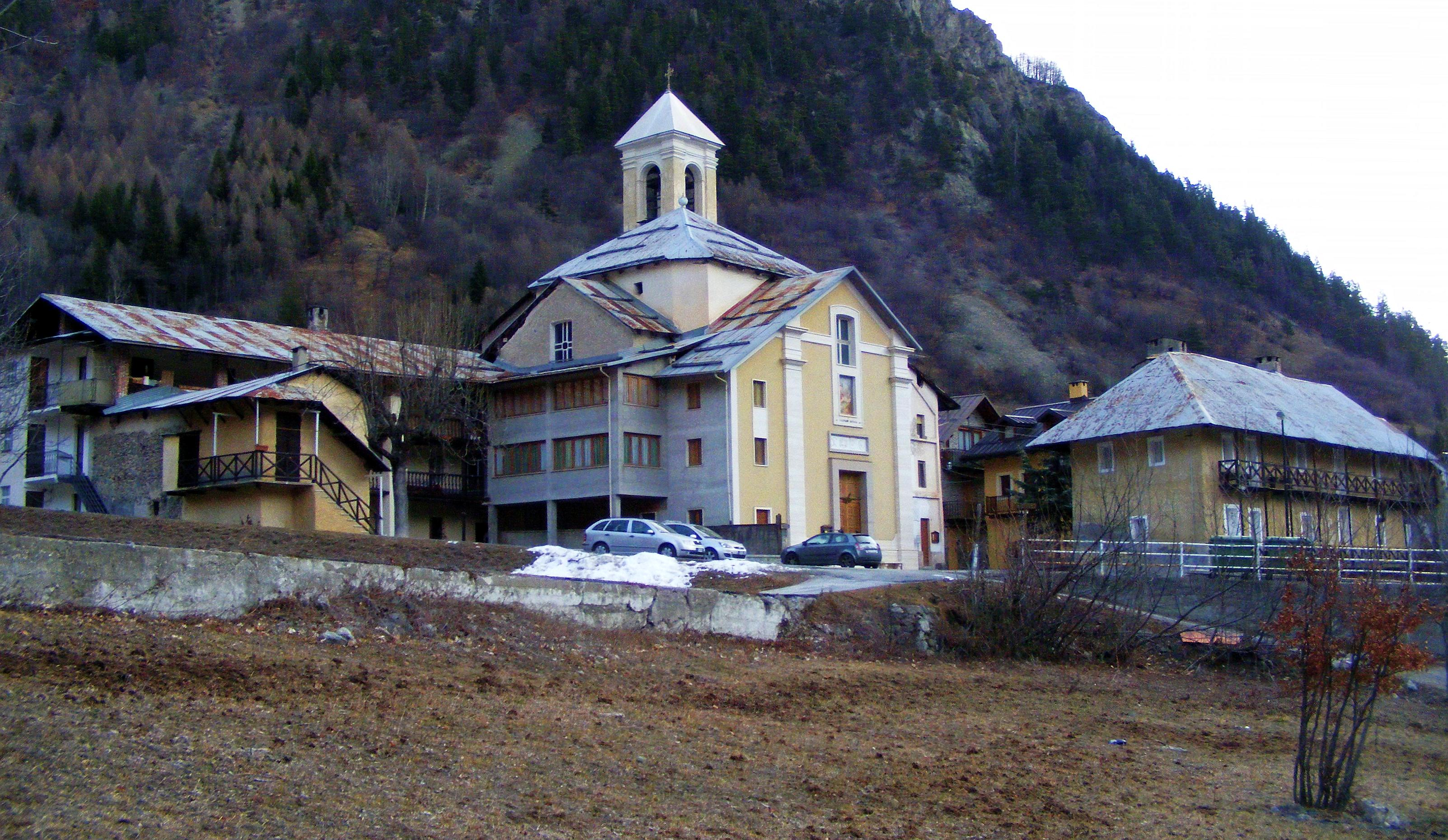 Bagni di Vinadio (Vinadio, CN): saint John the Baptist's parish church